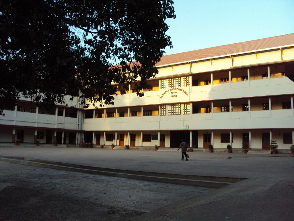 Main building of St. Joseph's Convent High School,Patna